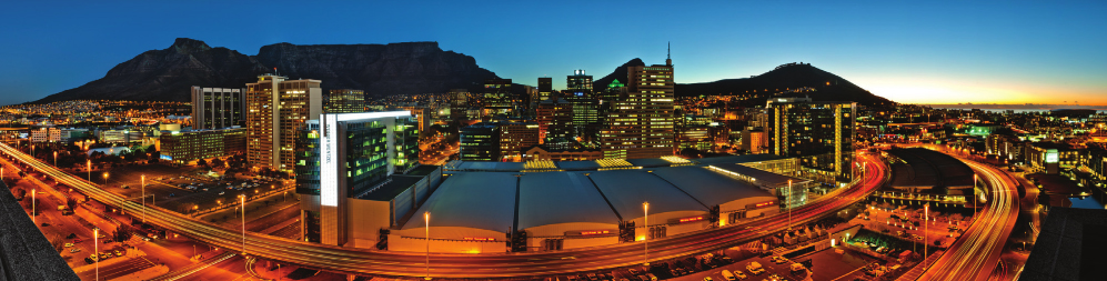 A panoramic picture of the CTICC for use in the Cape Town Wikimania bid.